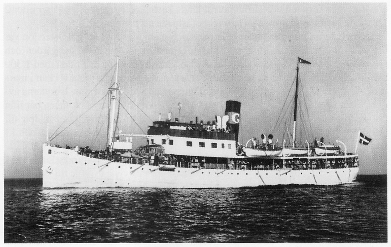 S/S Drotten built at Oskarshamn, Sweden 1927.